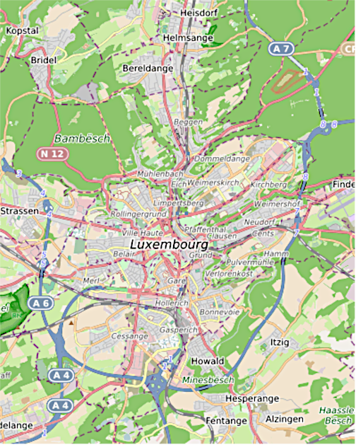 Overview map of Luxembourg-city.